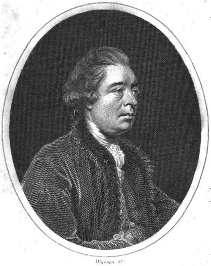 Portrait of John Hawkesworth (ca.1715-1773), English writer and editor